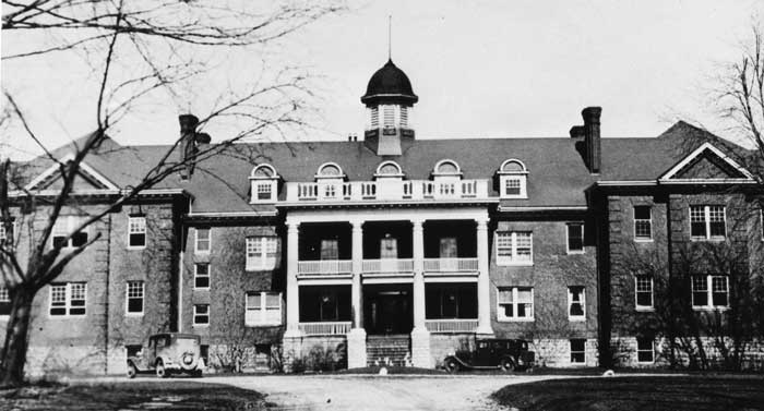 Photograph of the Mohawk Institute Indian Residential School in Brantford, Ontario, Canada in 1932.